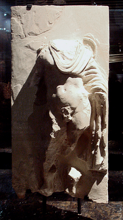 Statue of Apollo, Rome. Frieze of naked man wearing Chlamys. Ai Khanoum, 2nd century BCE. Musee Guimet. Personal photograph 2006.